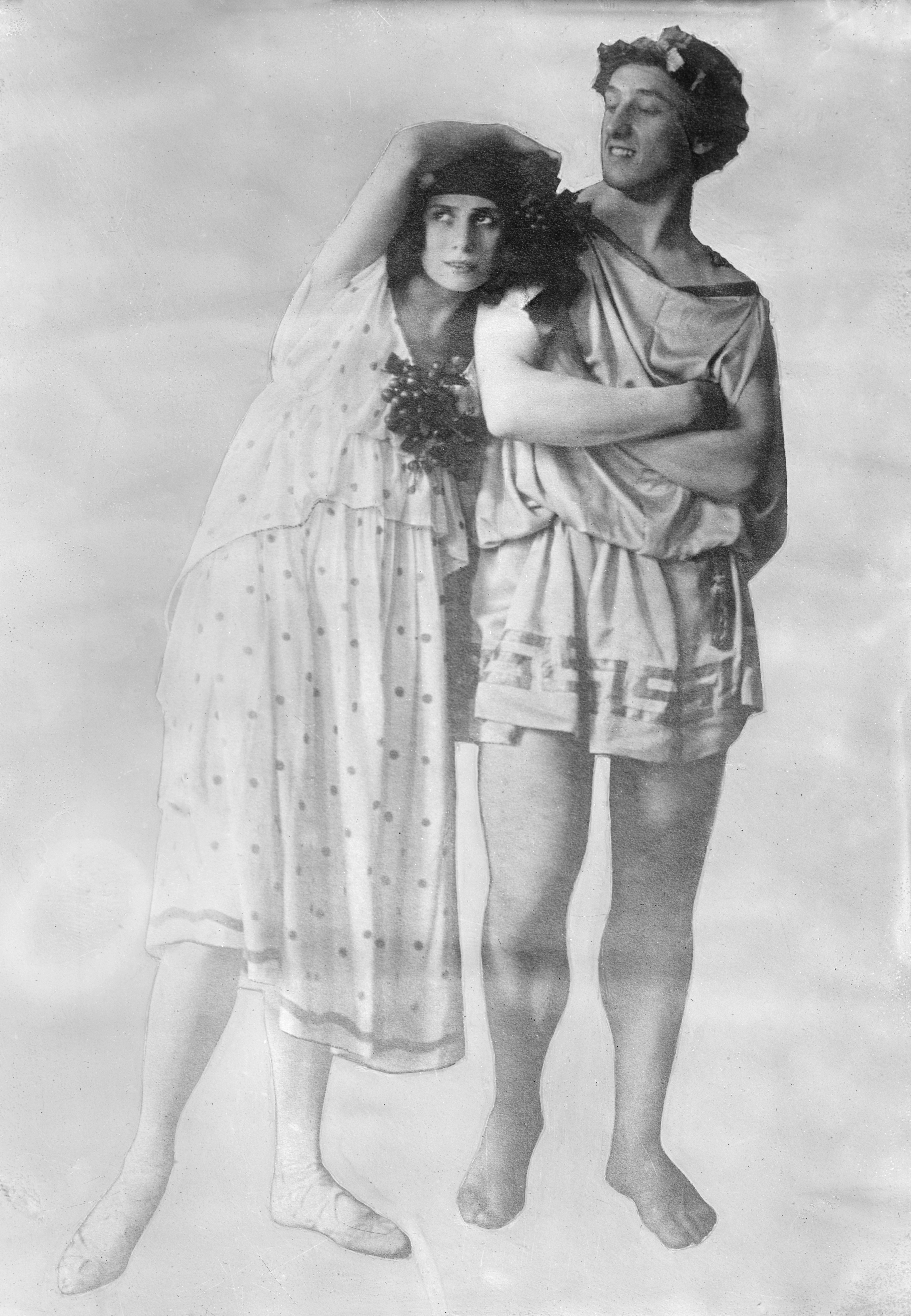 Anna Pavlova and Laurent Novikoff in 1913, Berlin (LOC) Bain News Service,, publisher. Pavlova and Novikoff [between ca. 1910 and ca. 1915] 1 negative : glass ; 5 x 7 in. or smaller. Notes: Title from unverified data provided by the Bain News Service on the negatives or caption cards. Forms part of: George Grantham Bain Collection (Library of Congress). Format: Glass negatives. Repository: Library of Congress, Prints and Photographs Division, Washington, D.C. 20540 USA, General information about the Bain Collection is available at Persistent URL: Call Number: LC-B2- 2825-3